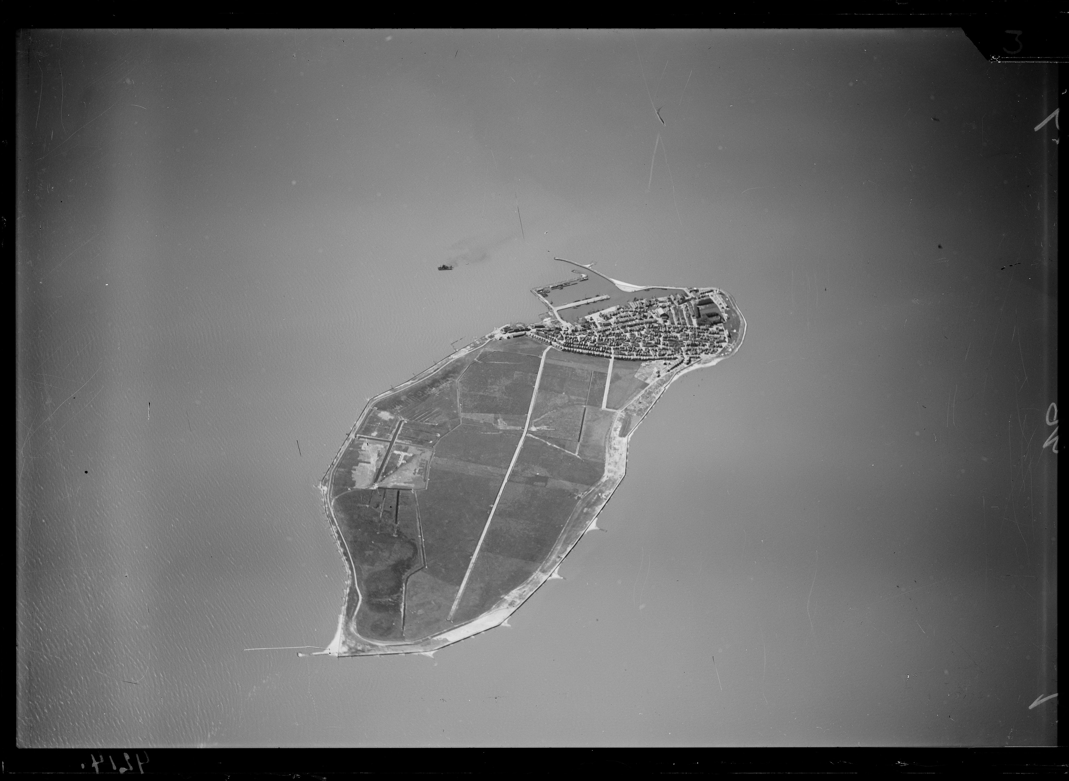 Aerial photograph of Urk, The Netherlands. Steamboat.